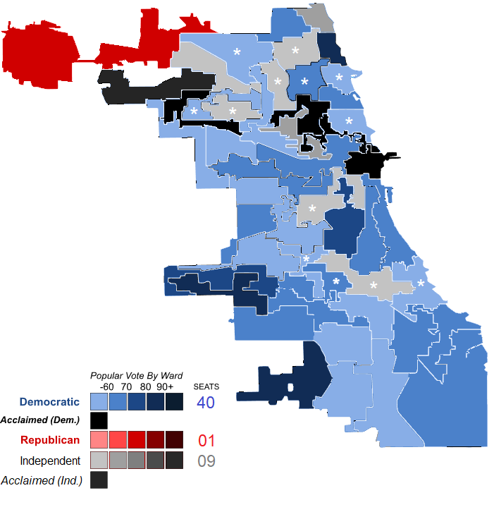 2019 Chicago aldermanic elections by ward. White asterisks indicate the necessity of a runoff. Elections are formally nonpartisan, parties are for informational purposes only.